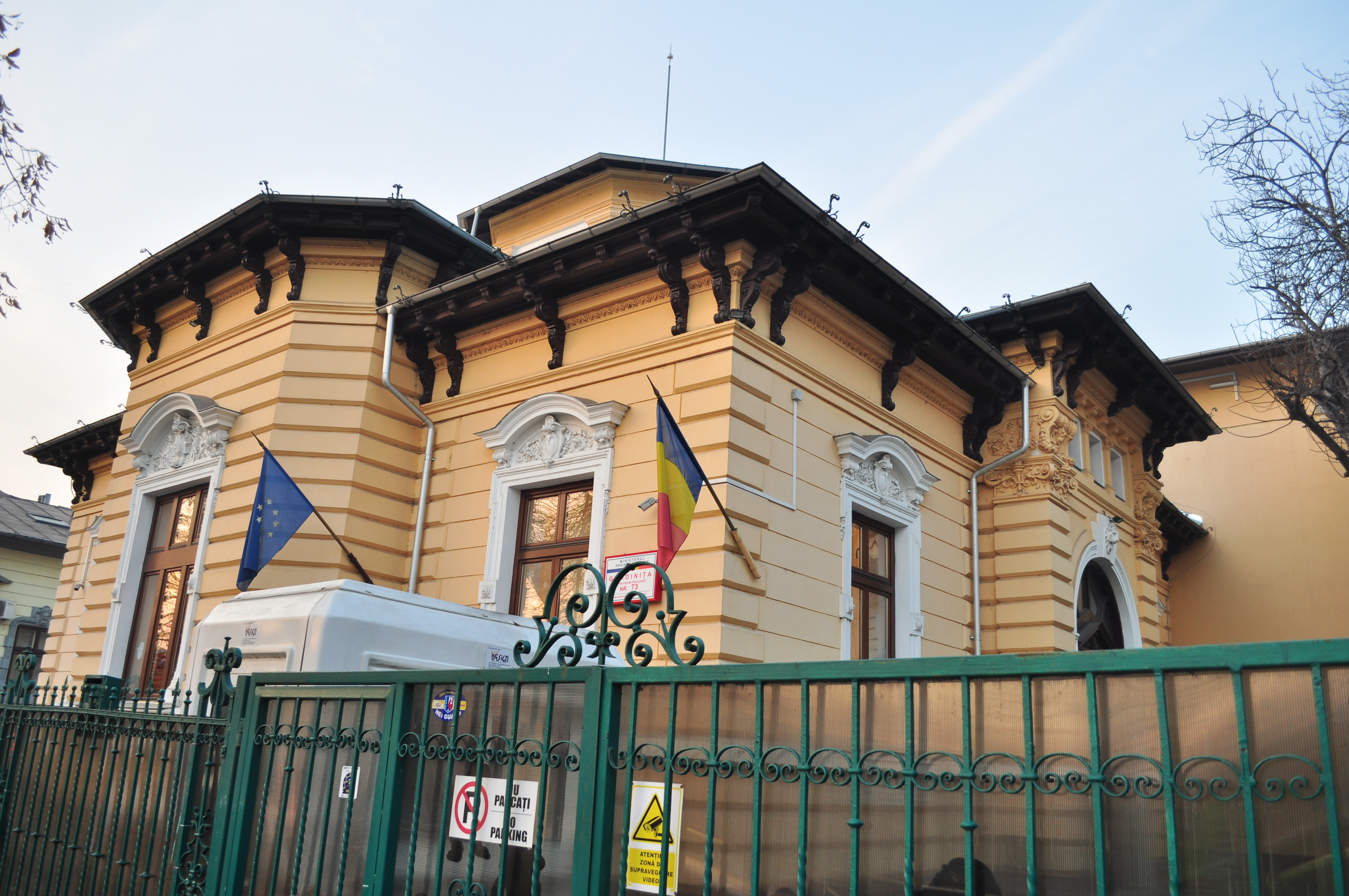 Gradiniţa Nr. 73, 68 Splaiul Independenței, Bucharest, Romania.